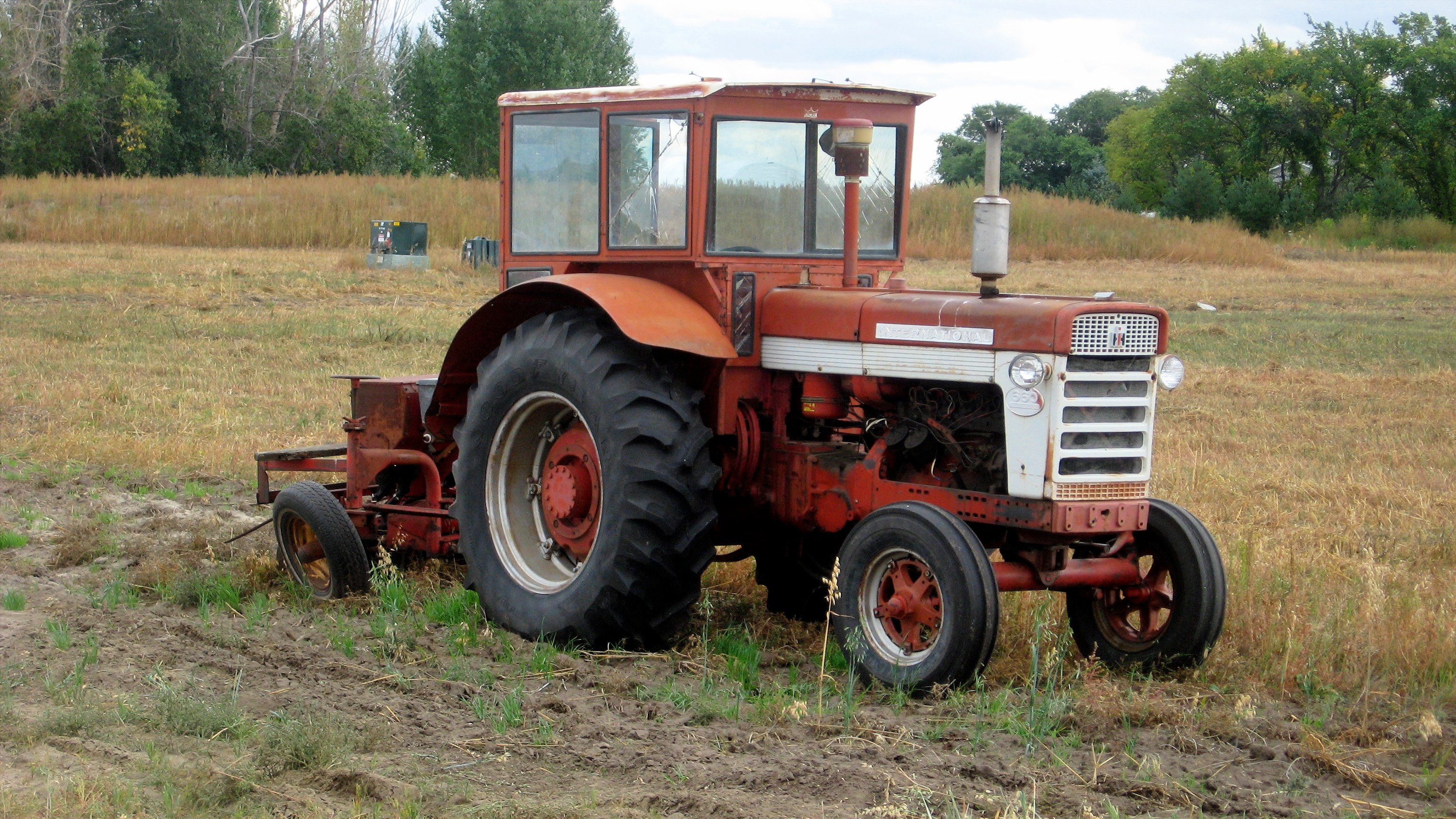 International 660 tractor, rural Saskatchewan, Canada, September 2008.